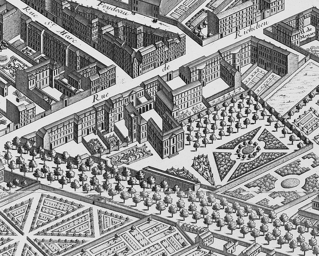 The Hôtel de Crozat, later known as the Hôtel de Choiseul, on the rue de Richelieu in Paris, as depicted on the Turgot map of Paris (1739). The theatre of the Opéra-Comique, the first Salle Favart was built in the garden in 1781–1783.